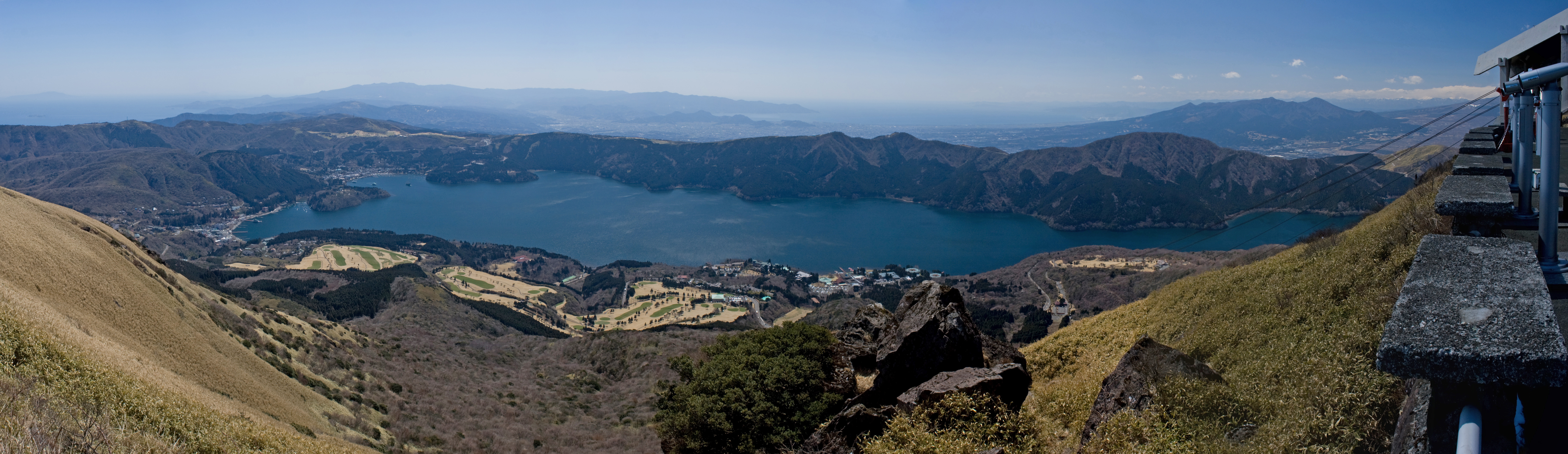 Lake Ashi (Ashi-no-ko) as seen from Mount Hakoene's Komagatake in Hakone, Kanagawa Prefecture, Japan.